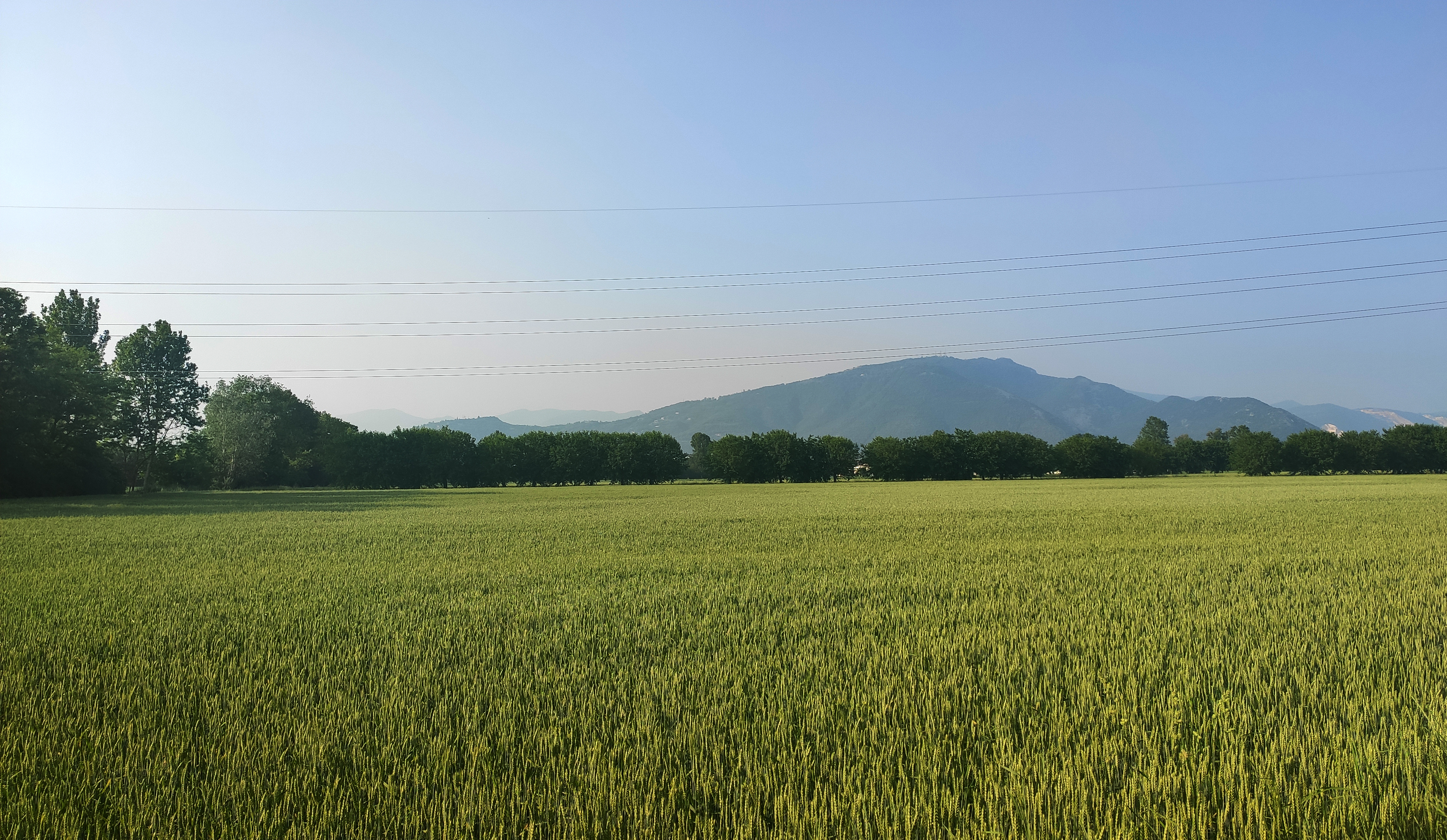 Mount Maddalena from Borgosatollo